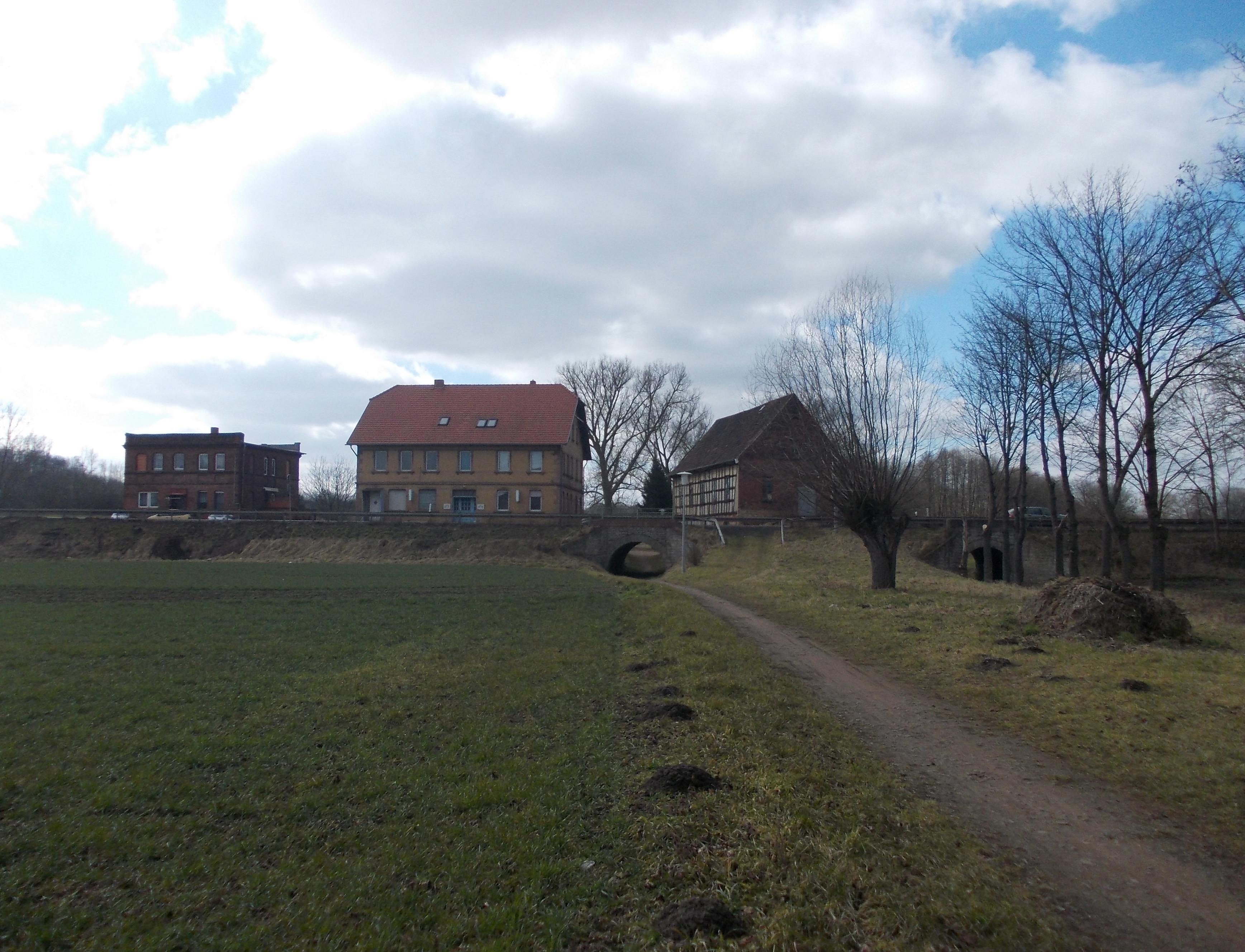 Former inn "Zur Hoffnung" in Oberwerschen (Hohenmölsen, district: Burgenlandkreis, Saxony-Anhalt)